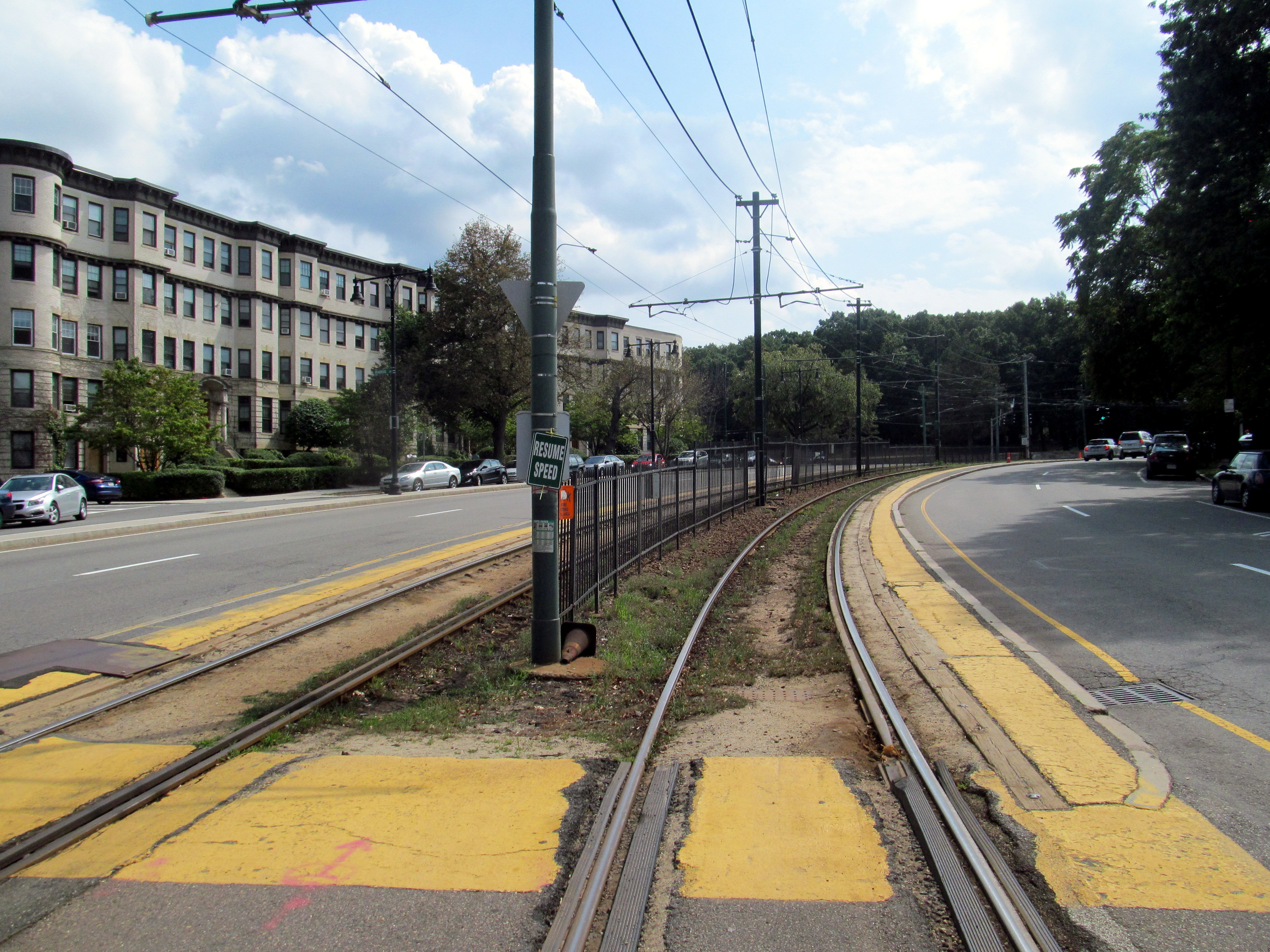 Chestnut Hill Avenue station in August 2016